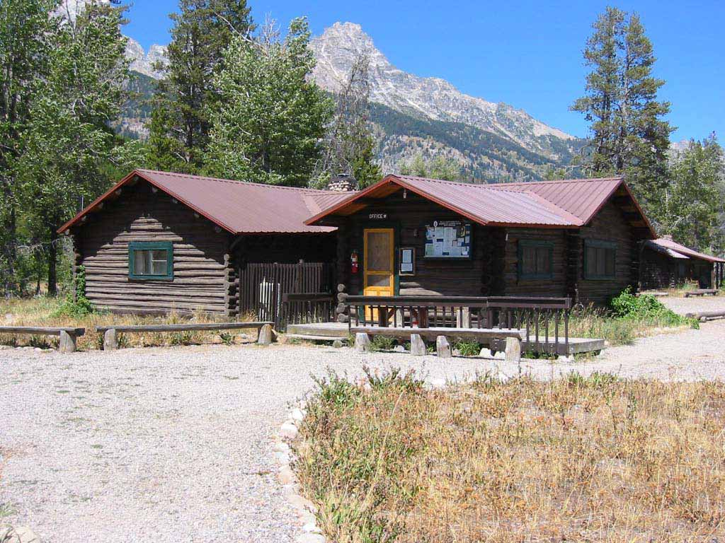 Dining Hall, Double Diamond Dude Ranch, Grand Teton National Park, Wyoming USA, now the Climber's Ranch